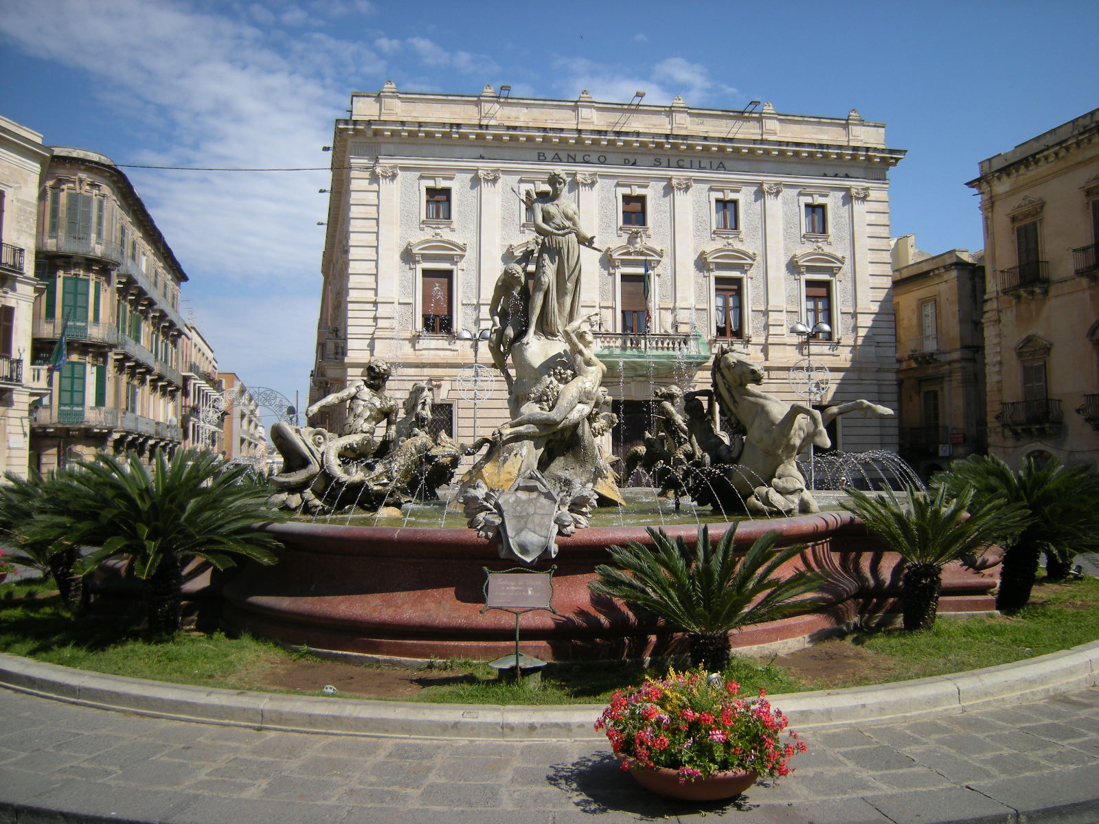 Fontana di Diana at Archimedes square in Syracuse, Sicily, Italy.